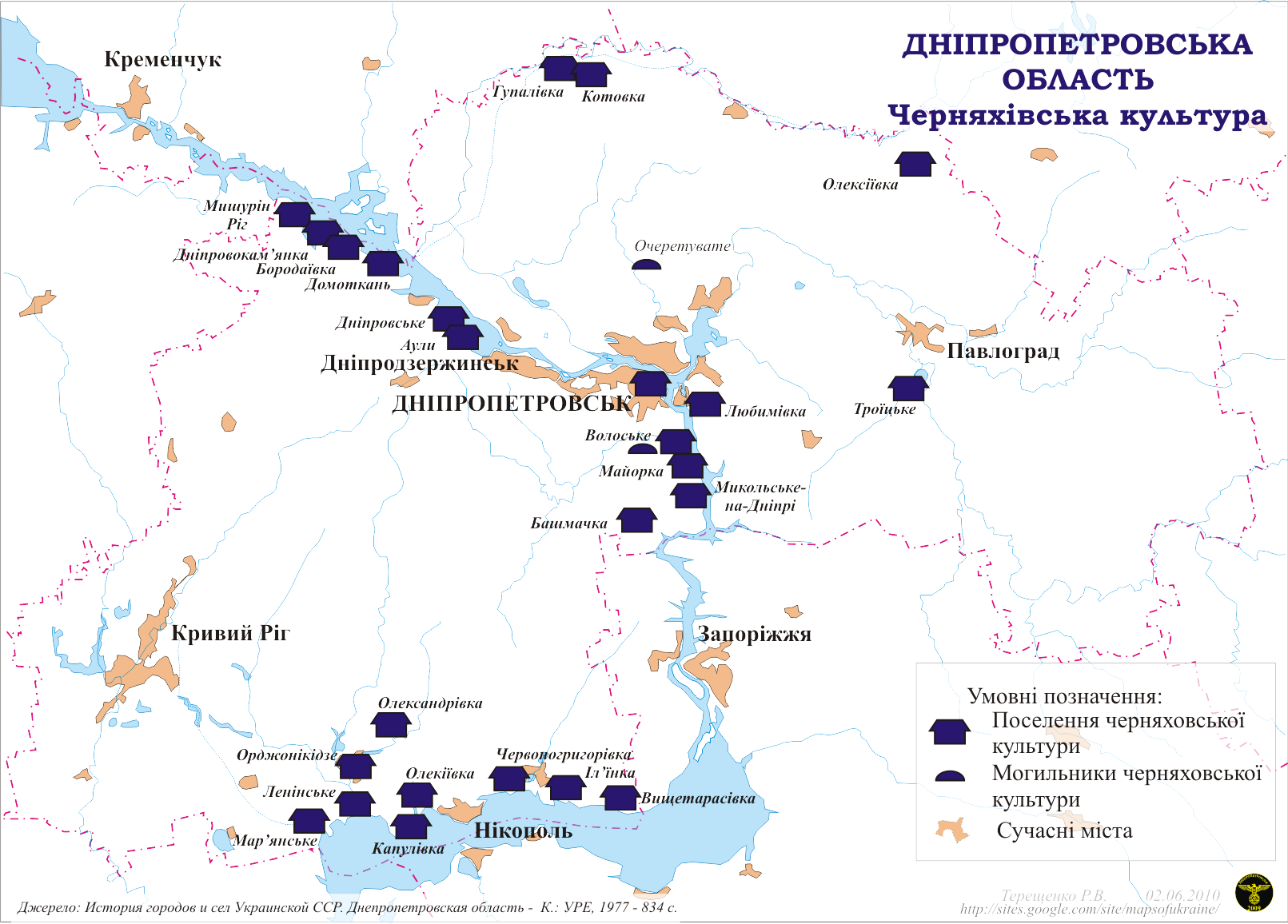 Dnipropetrovsk region. Archaeological sites Cherniahivs'ka Culture